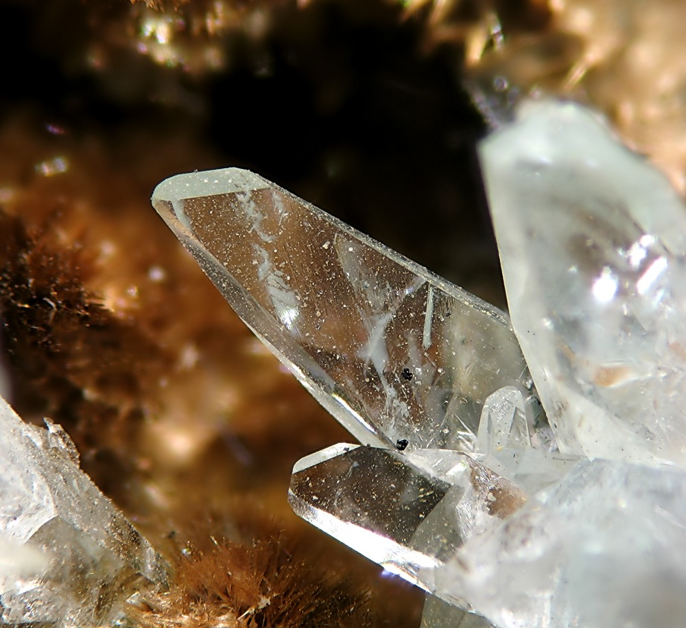 Phosphophyllite Locality: Hagendorf South Pegmatite (Cornelia Mine; Hagendorf South Open Cut), Hagendorf, Waidhaus, Vohenstrauß, Oberpfälzer Wald, Upper Palatinate, Bavaria, Germany (Locality at ) Picture width 3 mm. Collection and photo Christian Rewitzer